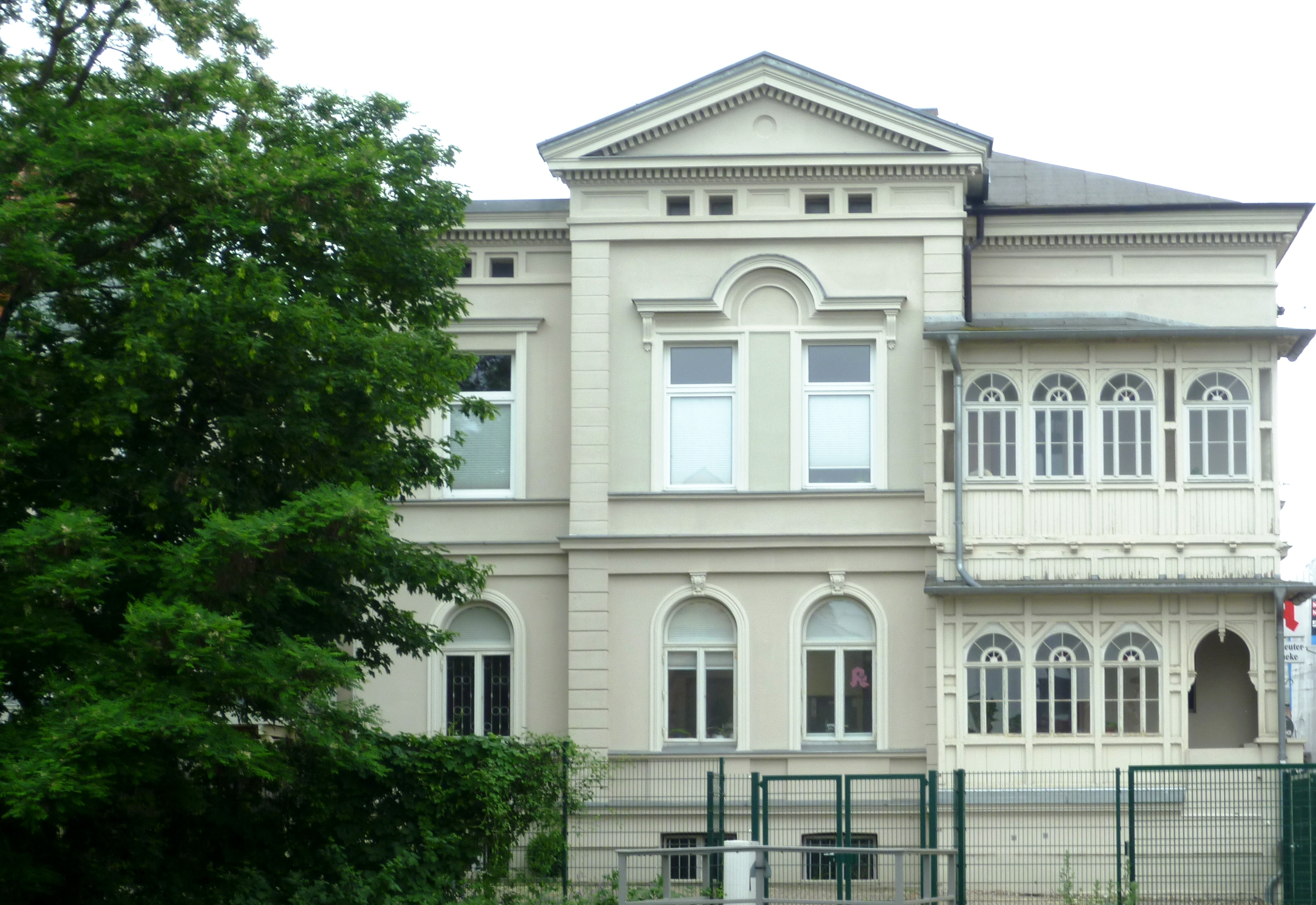 Wittenburger Strasse 40 is a listed building in Schwerin in Mecklenburg-Vorpommern. (Side face, view from street Reiferbahn)